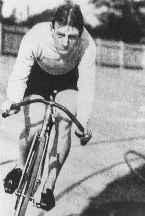 Marcus Hurley during 1904 Summer Olympics